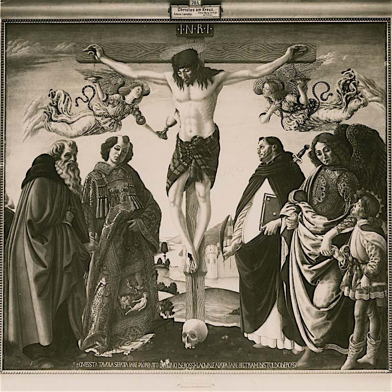 Christ on the Cross and Four Saints, by Francesco Botticini (c. 1475), a painting possibly destroyed in the Friedrichshain flak tower fire in Berlin, at the end of the Second World War (May 1945). The painting belonged to the collections of the Kaiser-Friedrich-Museum, now the Bode-Museum of Berlin.